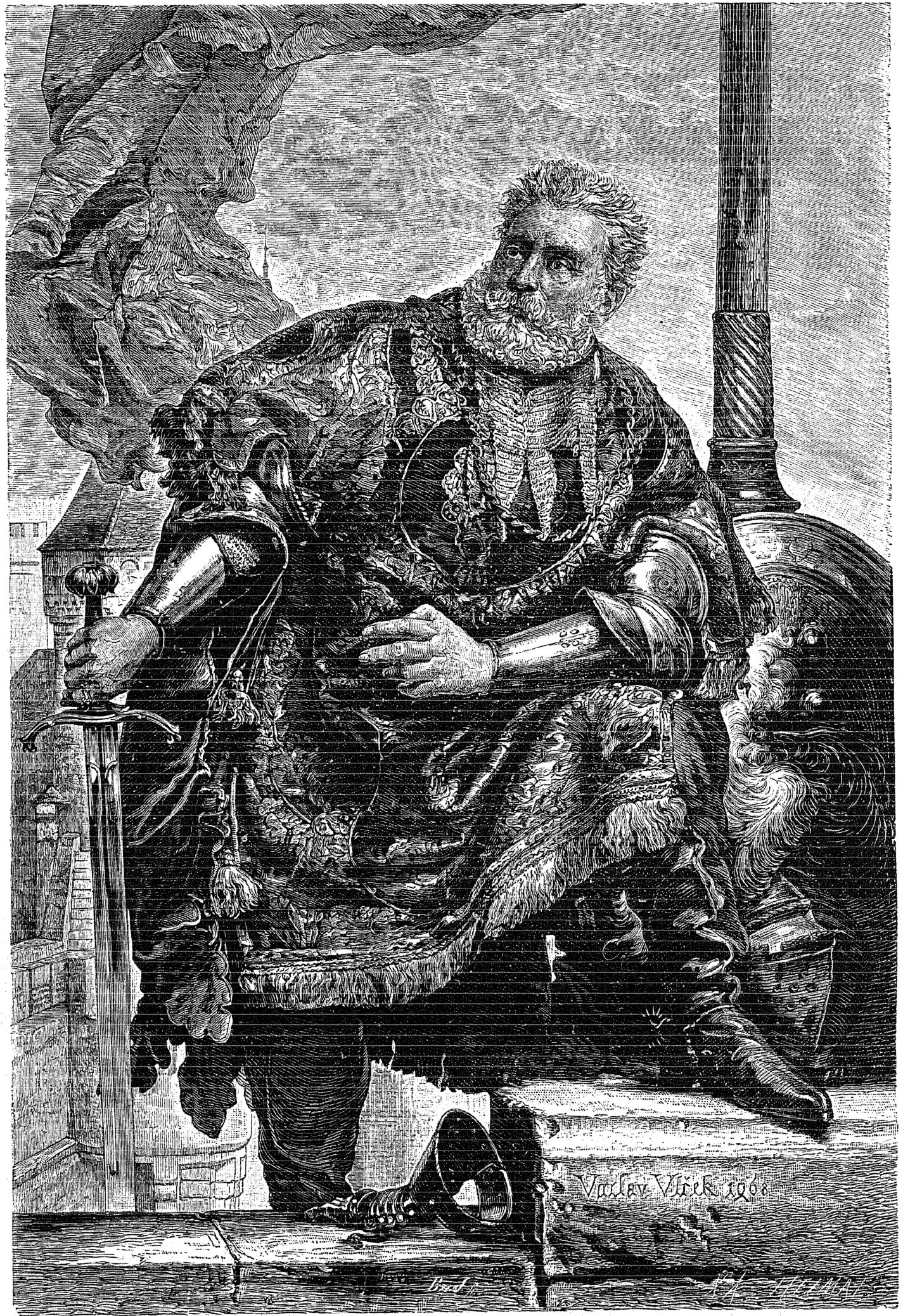 Portrait of Václav Vlček, Czech 15th-century military commander.